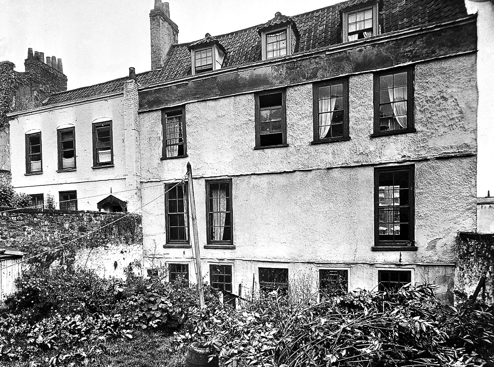 Bristol Pneumatic Institute. Wellcome Images Keywords: Institutions